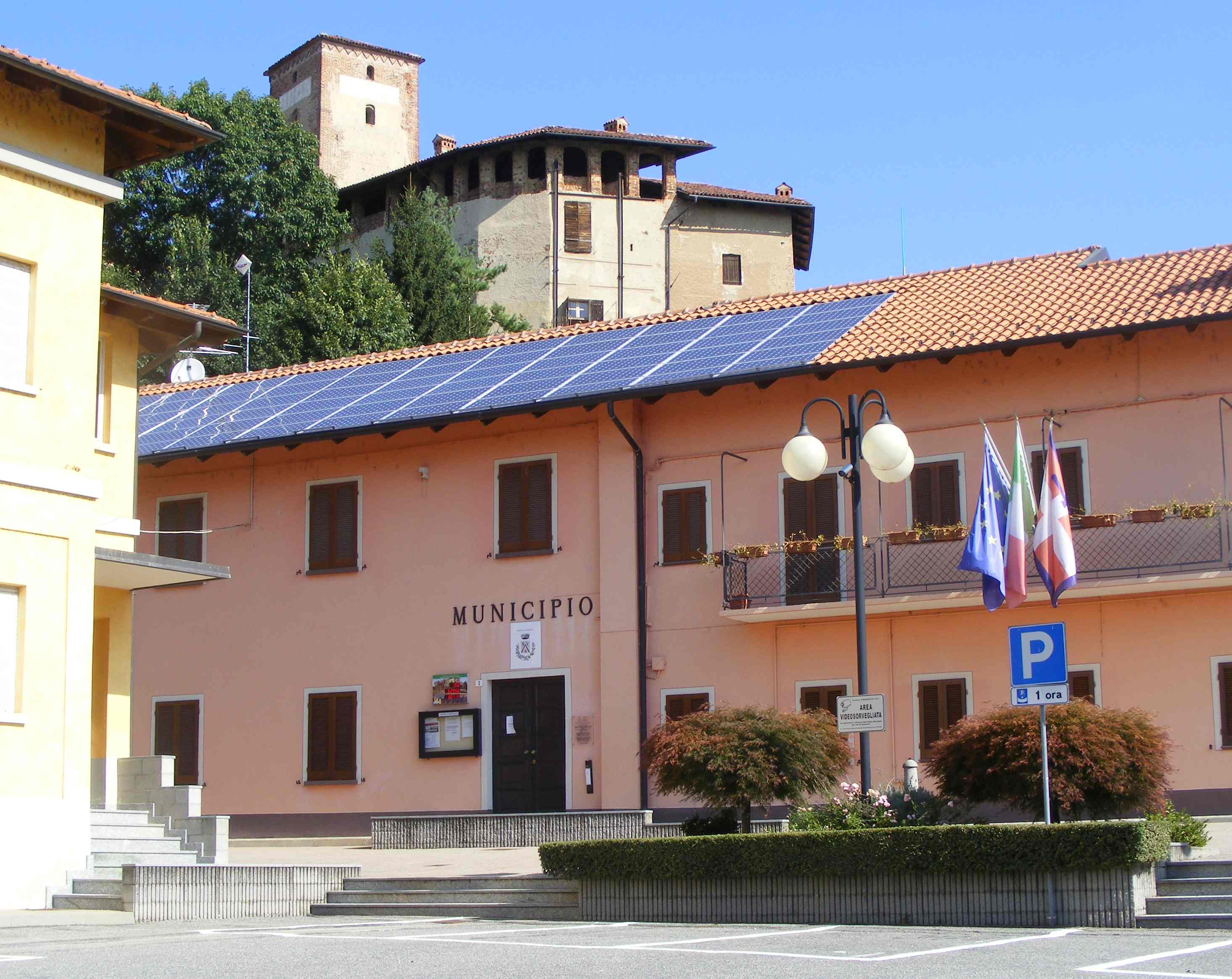 Massazza (BI, Italy): town hall